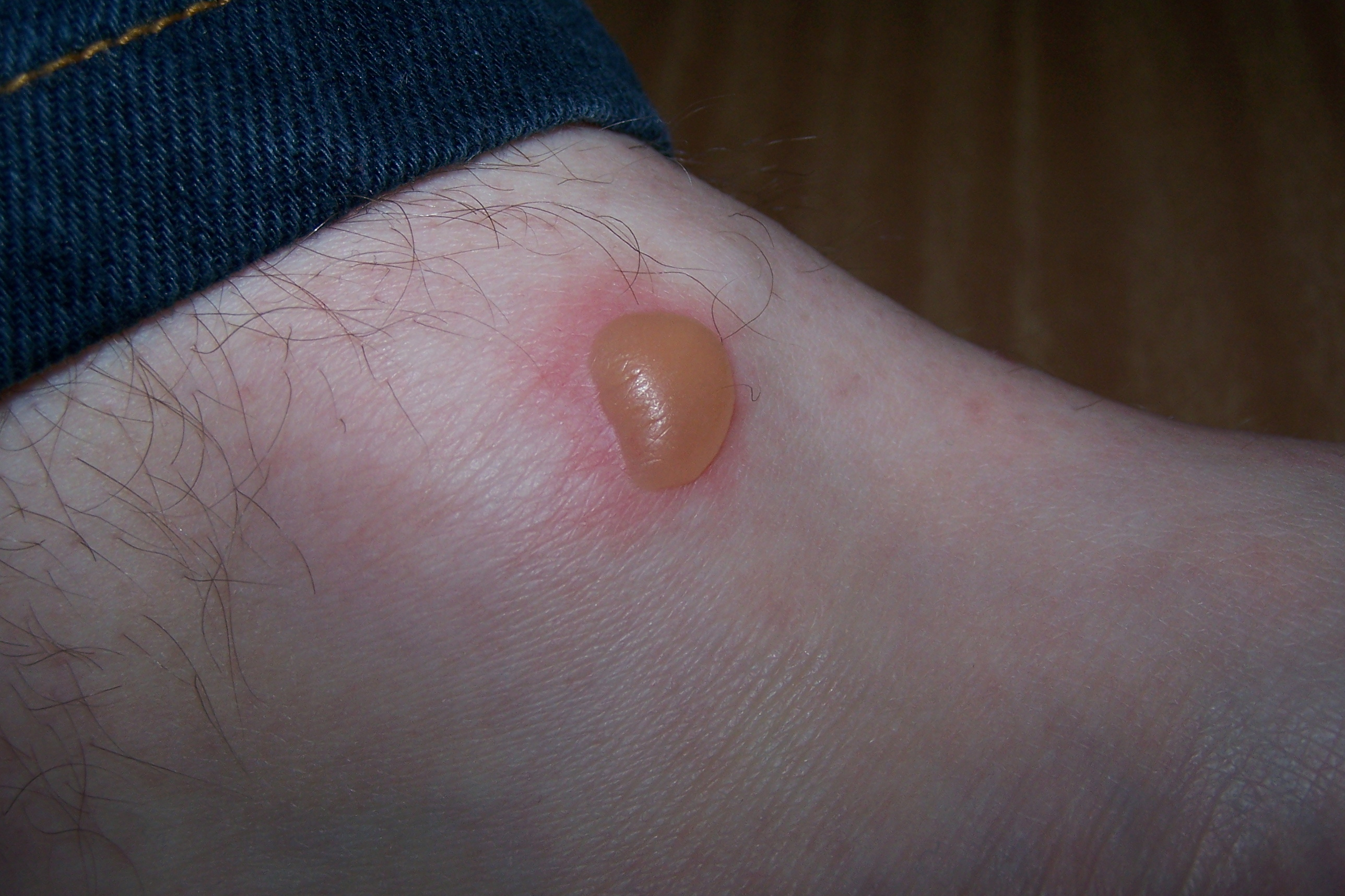 This is a blister that formed on my foot a couple of days after getting a second-degree burn.